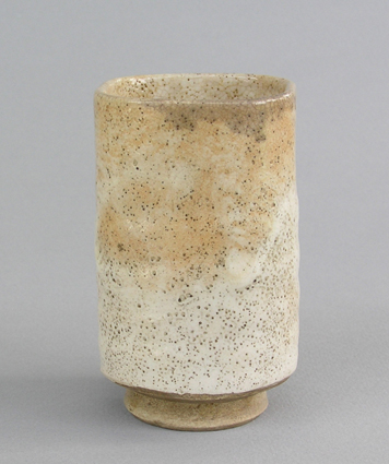 Shino food container - mukosuke